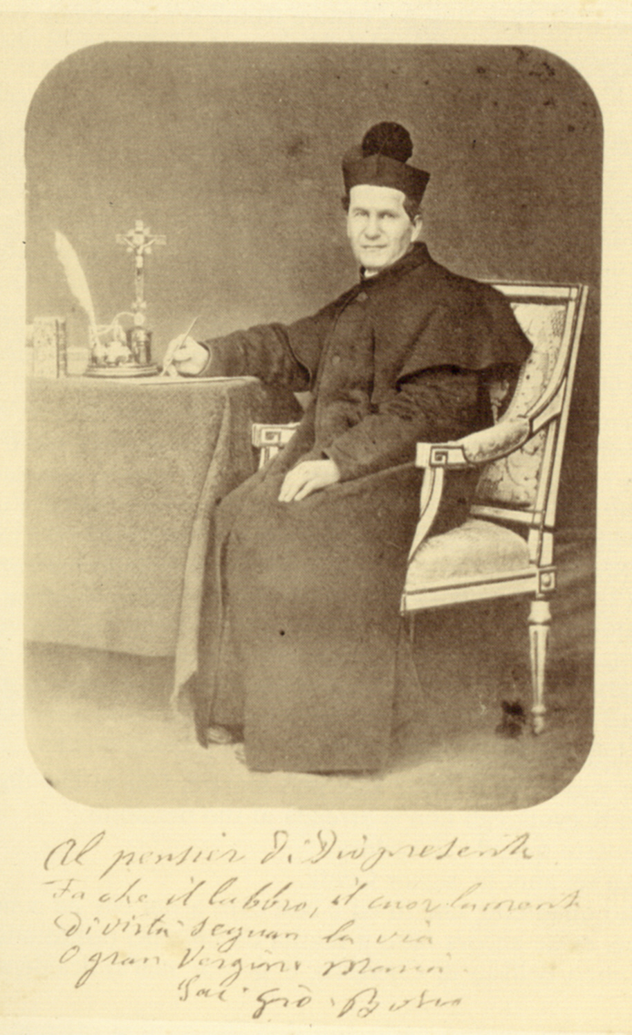 Don Bosco writing, Turin, 1865/68.